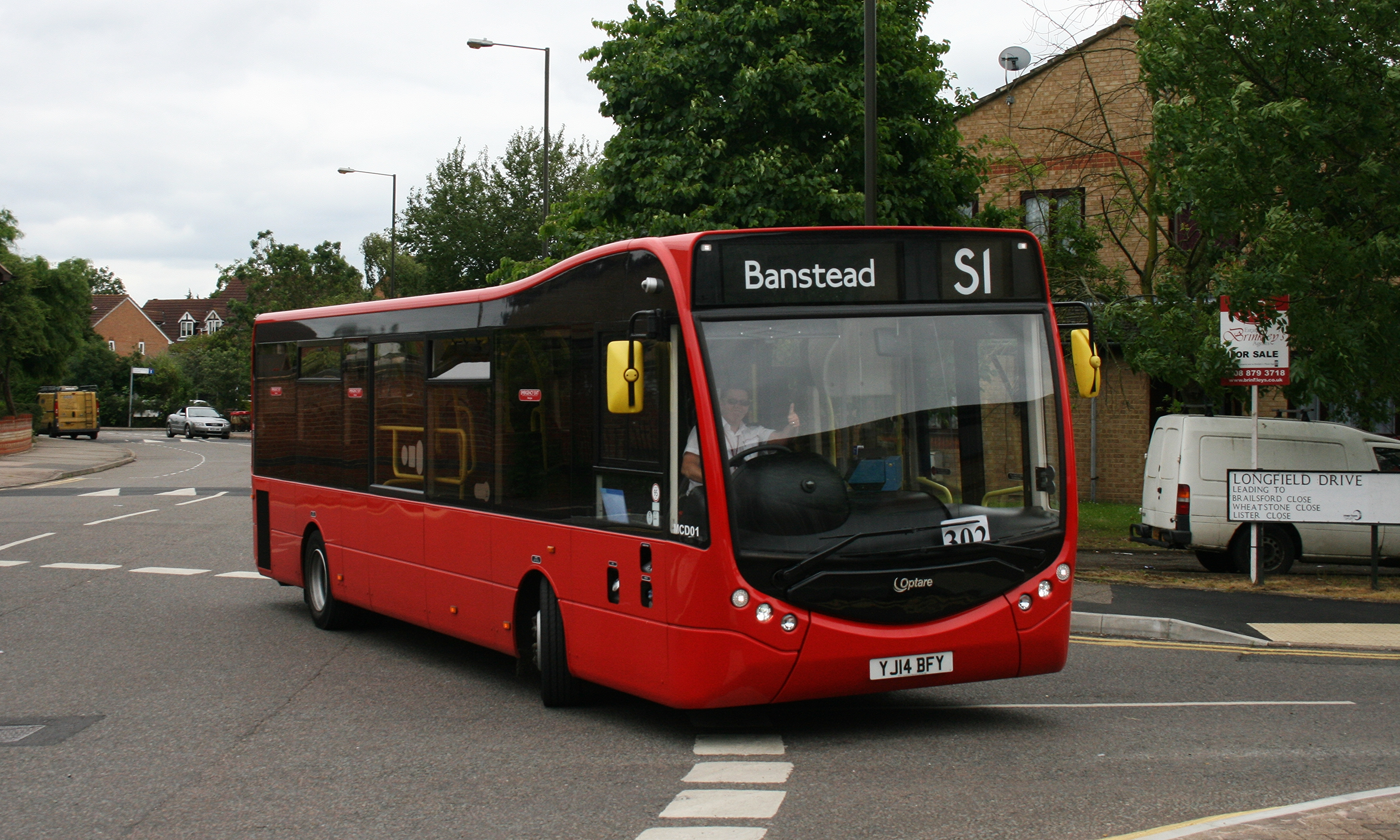 The driver of Quality Line MCD01 on Route S1, at Lavender Fields giving me the thumbs up! Due to the Cummins engine on this bus, this driver prefers this bus over the OMs on Route S1